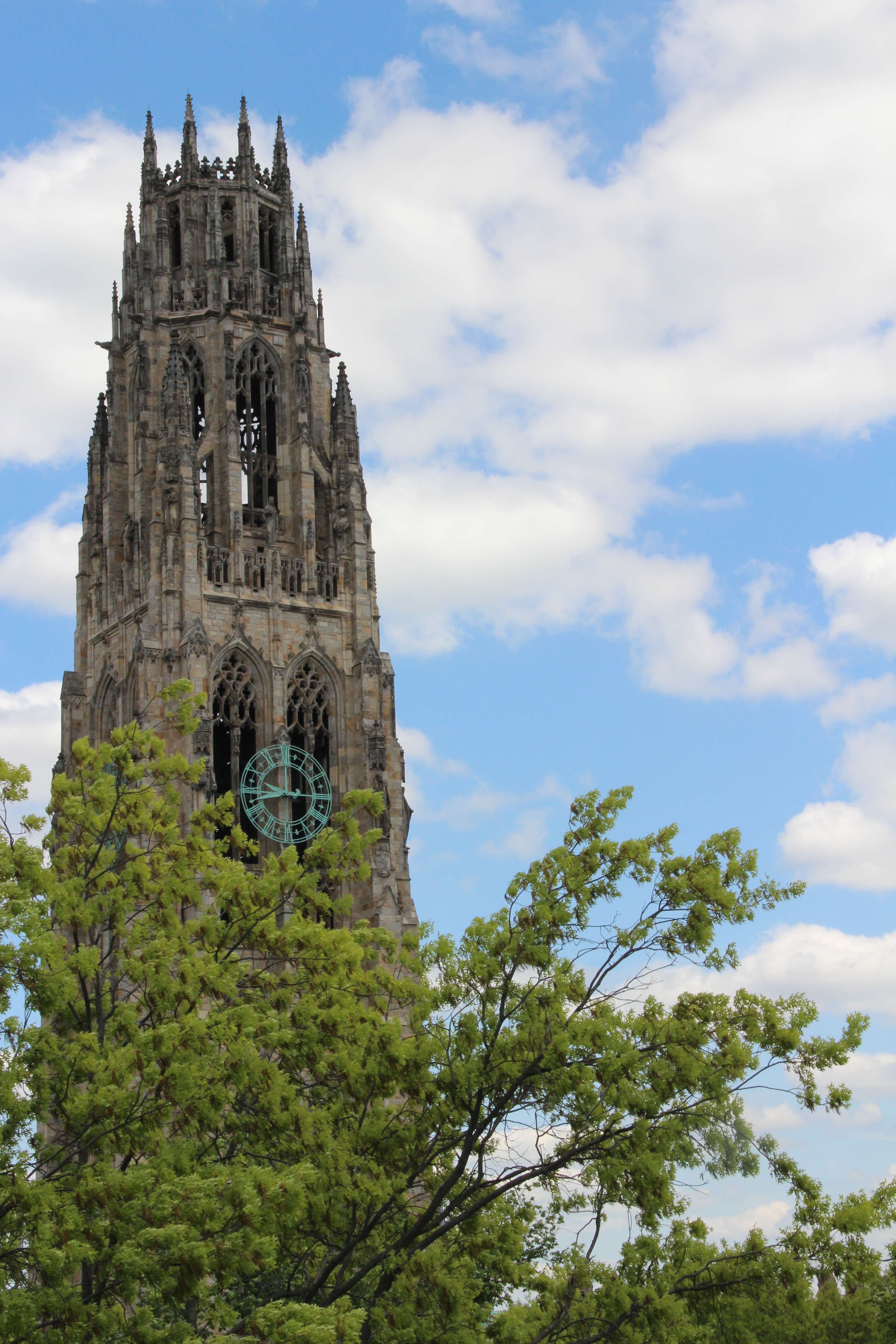 North-facing view of Harkness Tower from Jonathan Edwards College